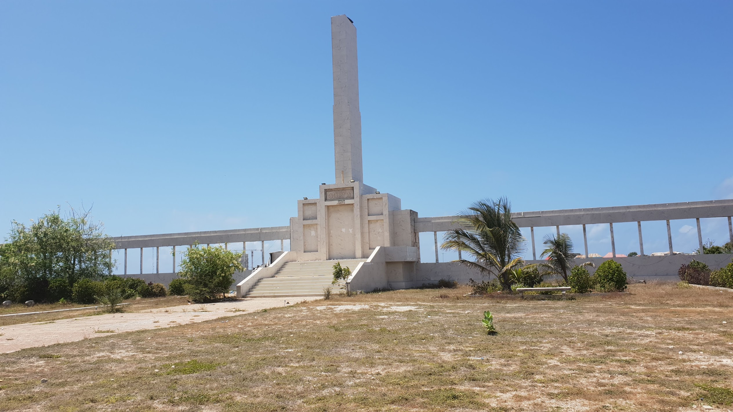 This is Dhagaxtuur monument in Mogadishu after the Somalia. This photo was taken in 2018 This is an image with the theme "Play" from: Somalia